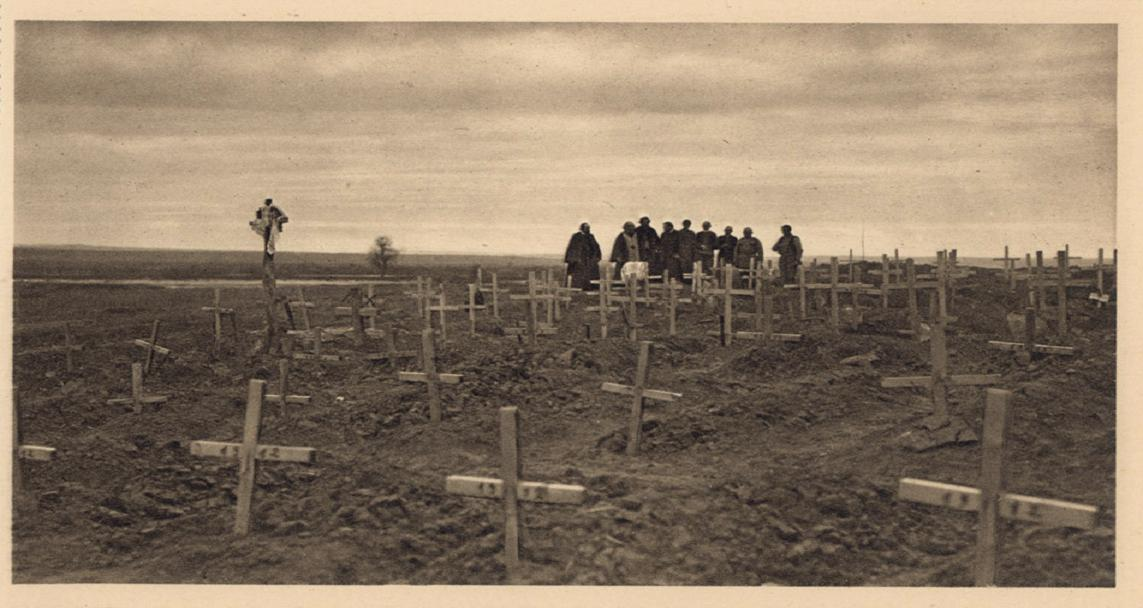 Гробље 8000 српских ратника изгинулих код Једрена, фотографија Самсона Чернова објављена у албуму „Петогодишњи рат – Срби 1912-1916“ у Лондону 1916. године.